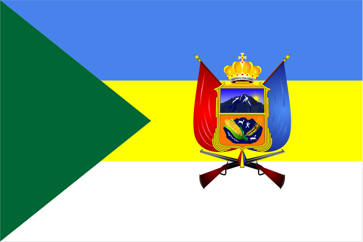 Coalaque District - Province of General Sanchez Cerro - Moquegua Region